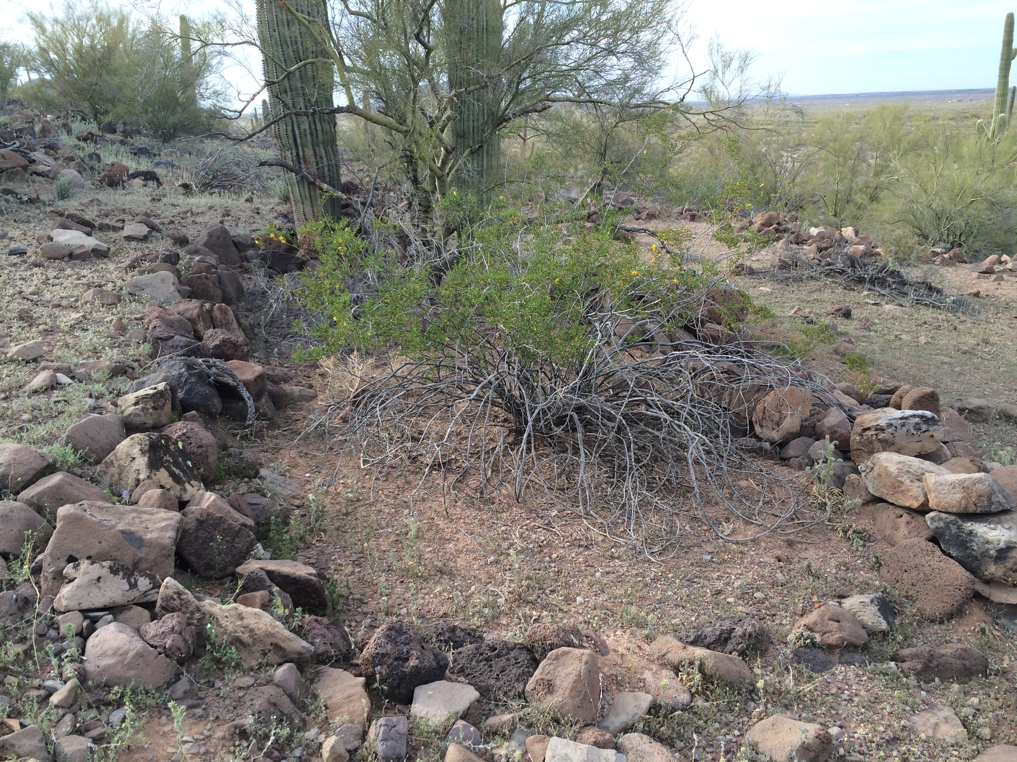 Creosote, palo verde, and saguaro growing among the ruins of an ancient Hohokam stone structure at Cerro Prieto — in the Los Robles Archaeological District. Within Ironwood Forest National Monument, southern Arizona.